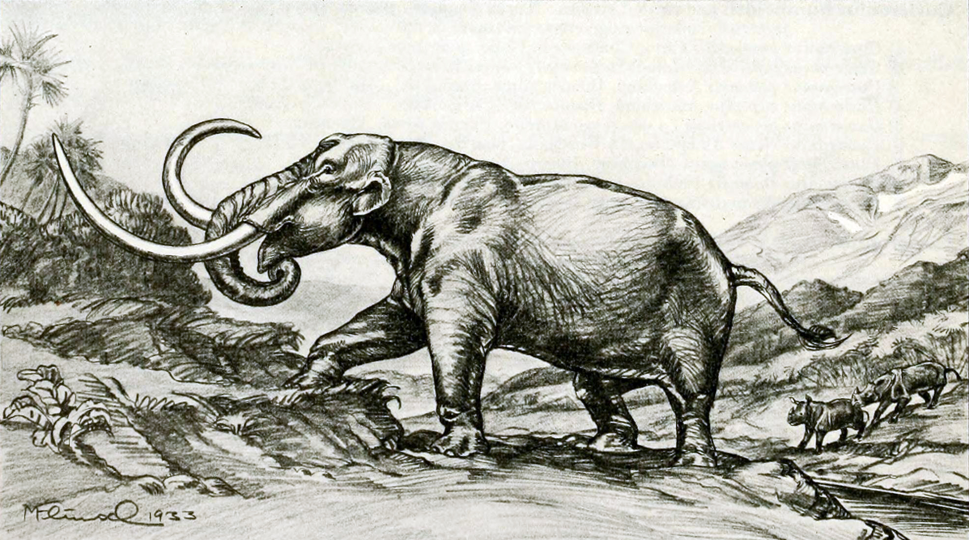 Choerolophodon corrugatus (formerly Synconolophus dhokpathanensis).